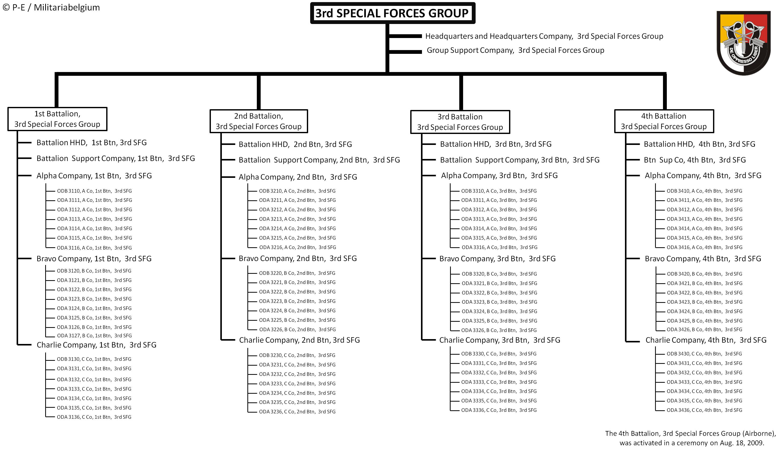 3rd Special Forces Group - New 4-digit numbers ODA